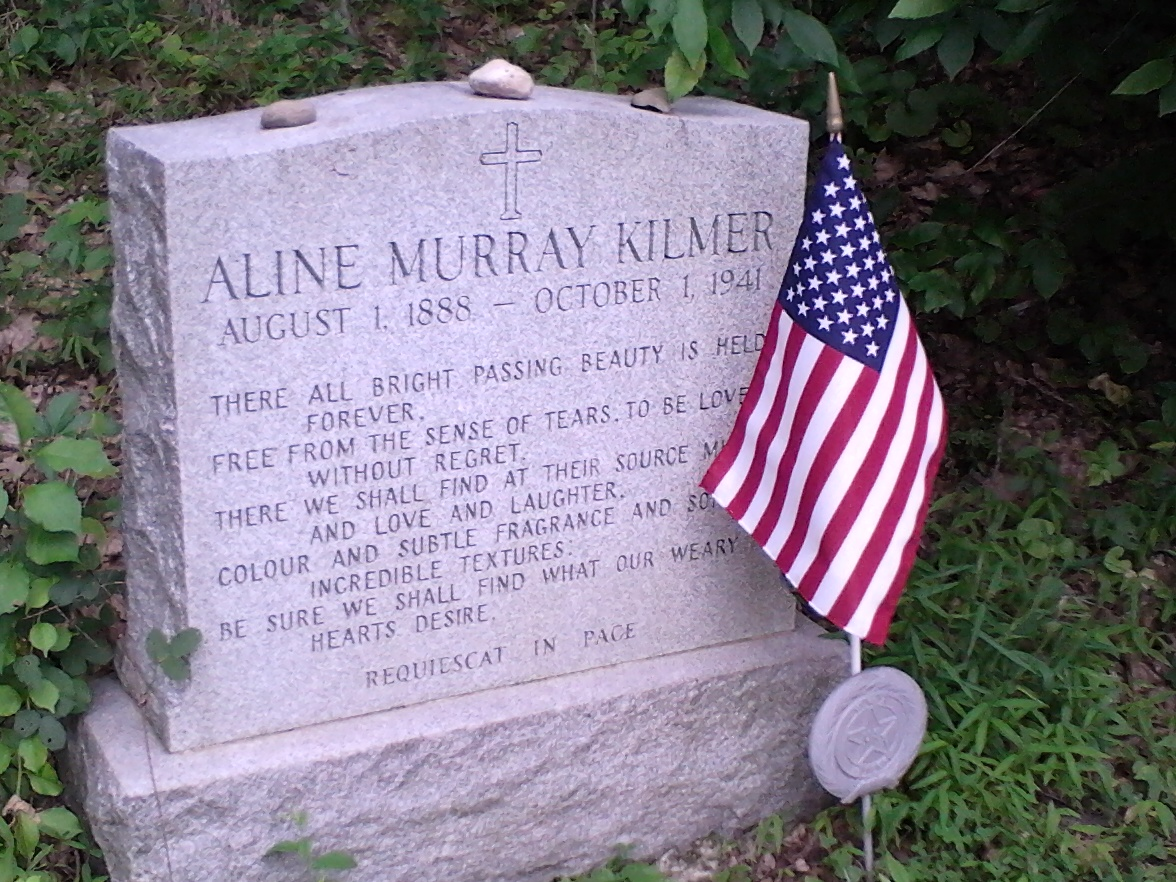 Gravestone of poet and writer Aline Murray Kilmer (1888-1941)--the widow of poet, writer and critic Joyce Kilmer (1886-1918). The grave is located in the back of Saint Joseph's Roman Catholic Cemetery (Diocese of Paterson NJ) located on U.S. Highway 206 South in the town of Newton, in Sussex County, New Jersey (USA)